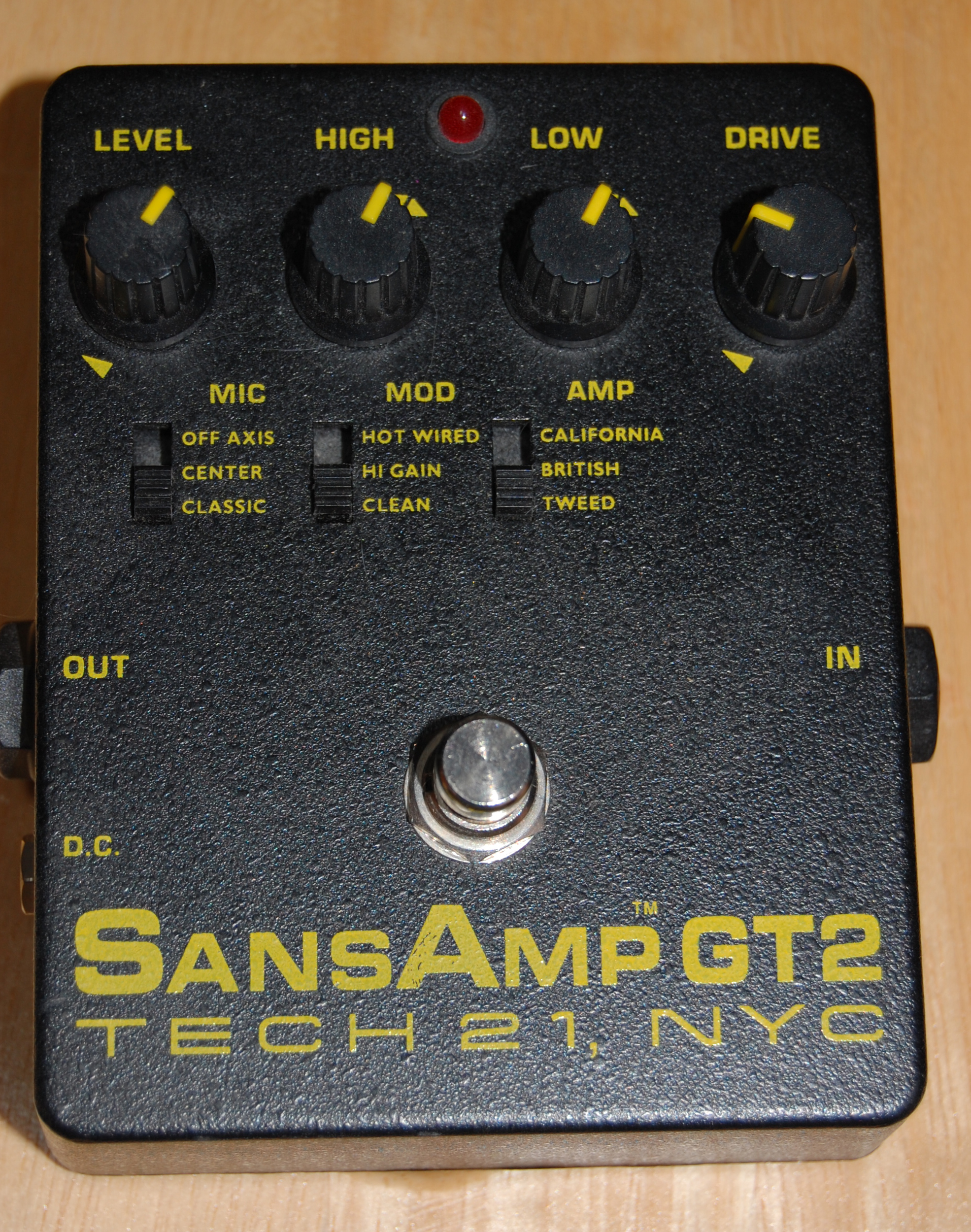 Tech 21 SansAmp GT2, the sequel to the original SansAmp